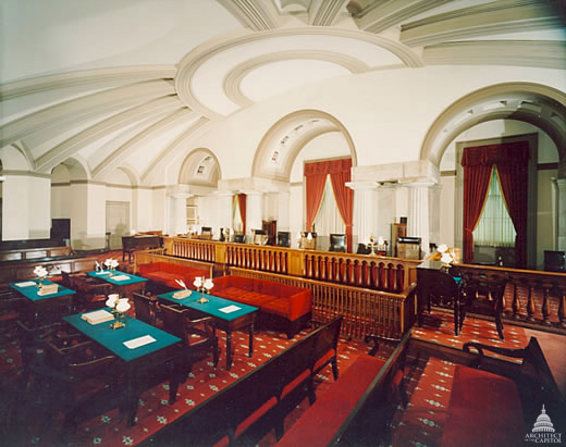 Until 1935, the U.S. Capitol housed the Supreme Court of the United States as well as the Congress. This semicircular, umbrella-vaulted room, located north of the Crypt, was used by the Court between 1810 and 1860. This official Architect of the Capitol photograph is being made available for educational, scholarly, news or personal purposes (not advertising or any other commercial use). When any of these images is used the photographic credit line should read “Architect of the Capitol.” These images may not be used in any way that would imply endorsement by the Architect of the Capitol or the United States Congress of a product, service or point of view. For more information visit